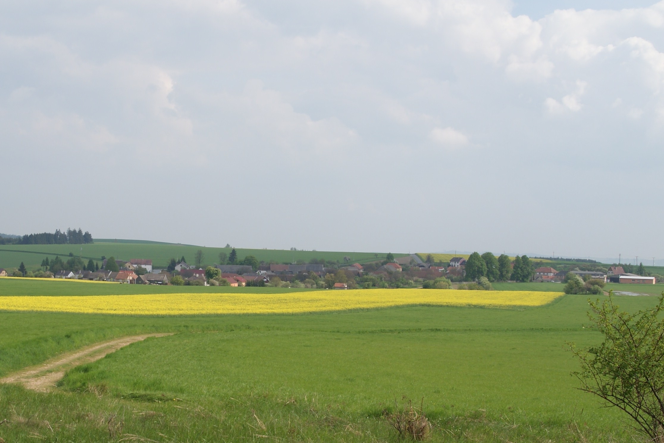 View of Markvartice near Třebíč from north